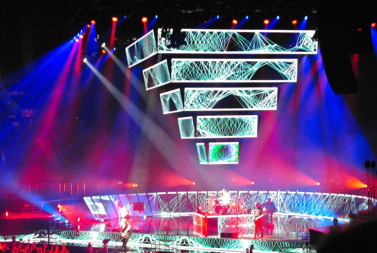 Muse en vivo en Montreal Canadá 2013.